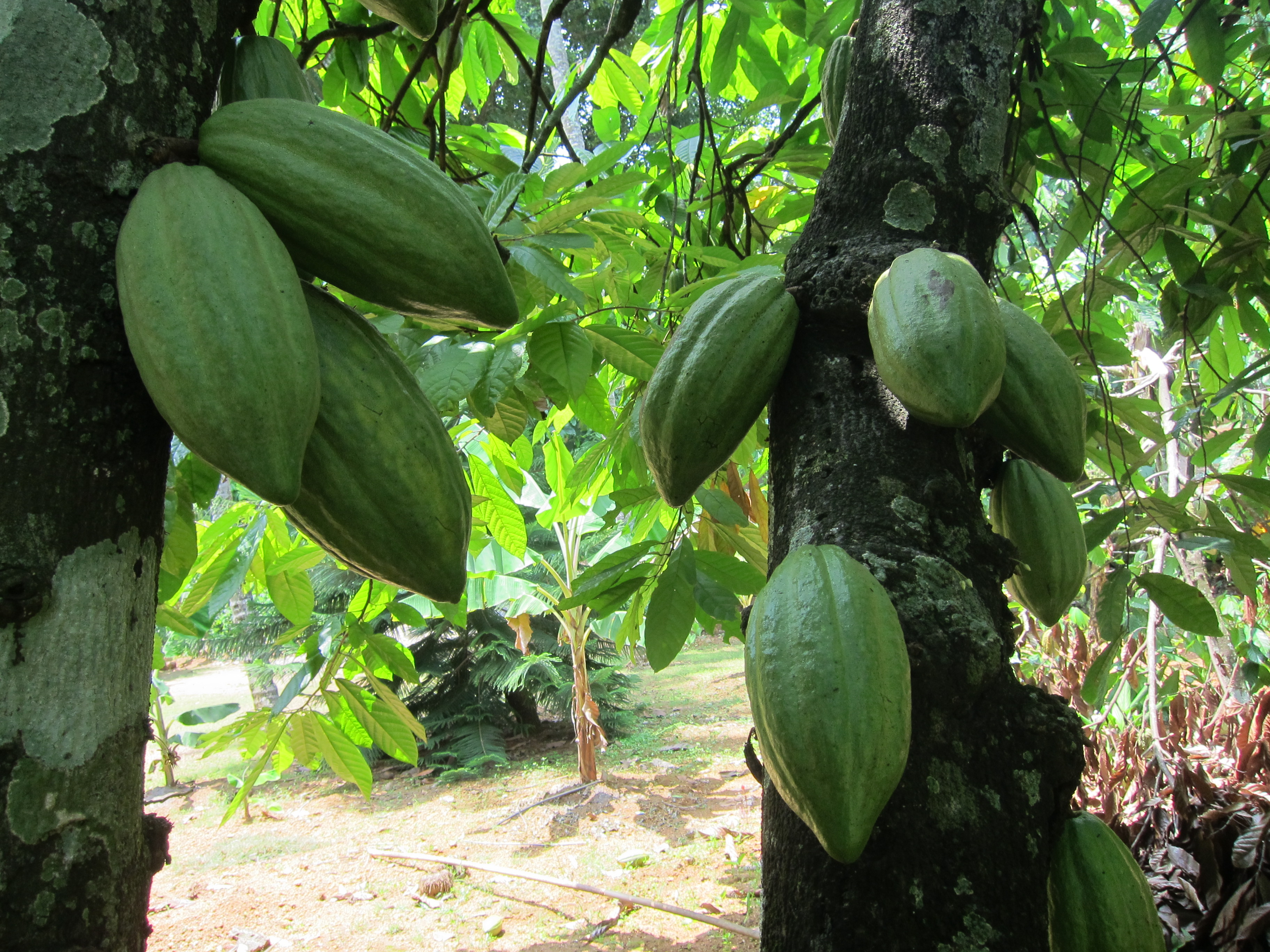 Coco - Dark Green